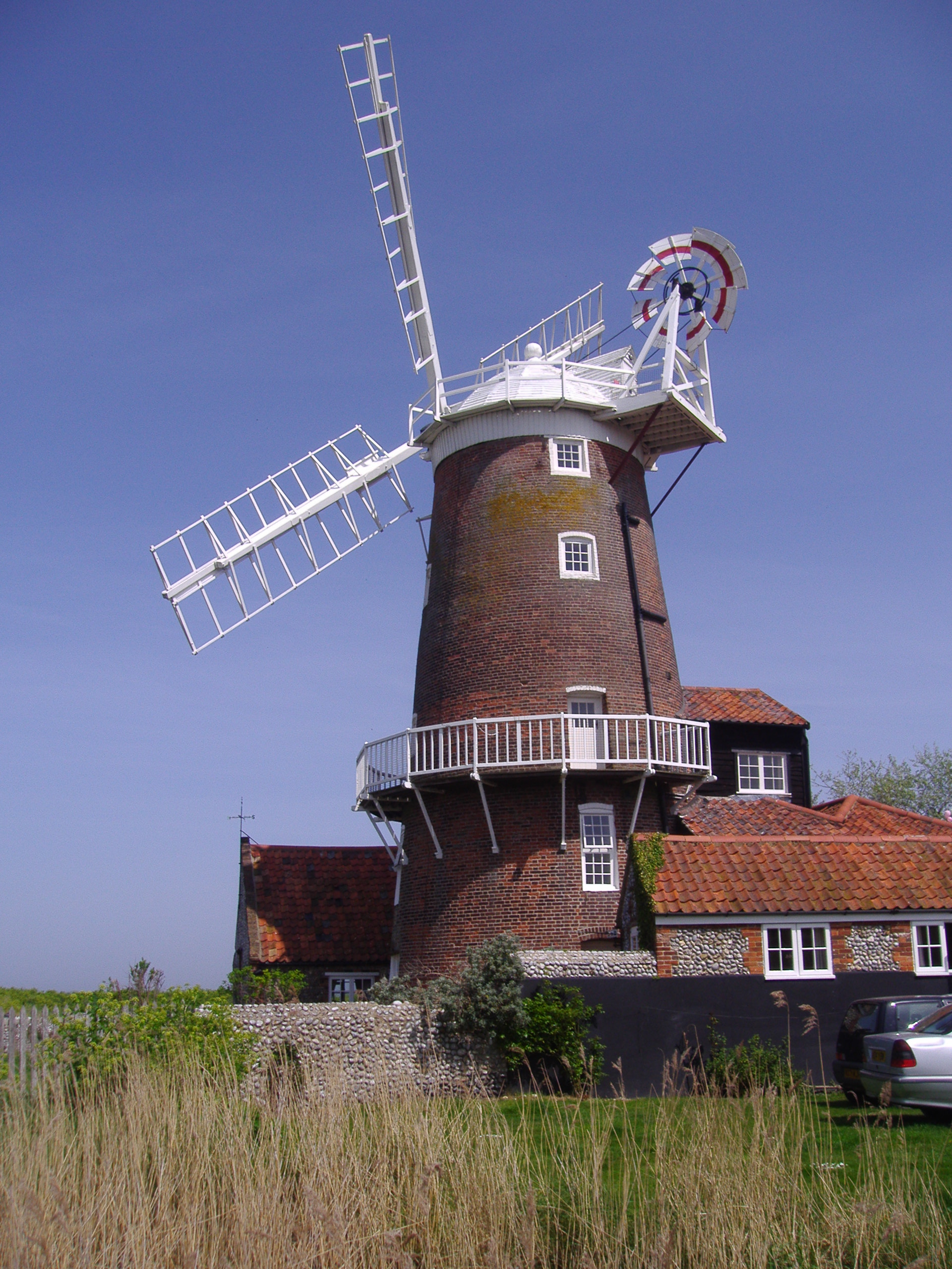 The Windmill at Cley next the Sea, in the county of Norfolk, United Kingdom.